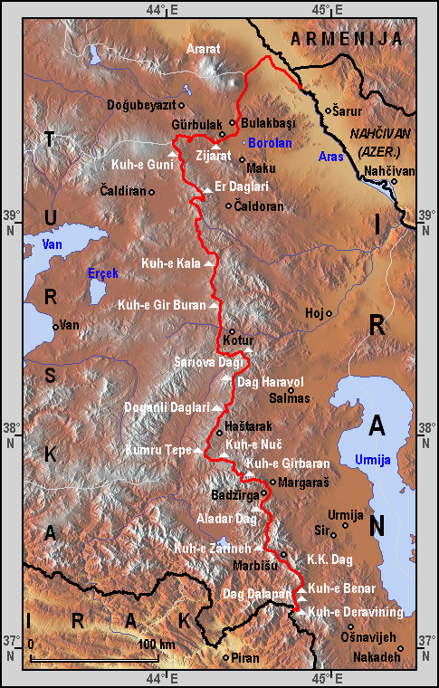 Iran-Turkish border with Croatian descriptionHrvatski: Iransko-turska granica